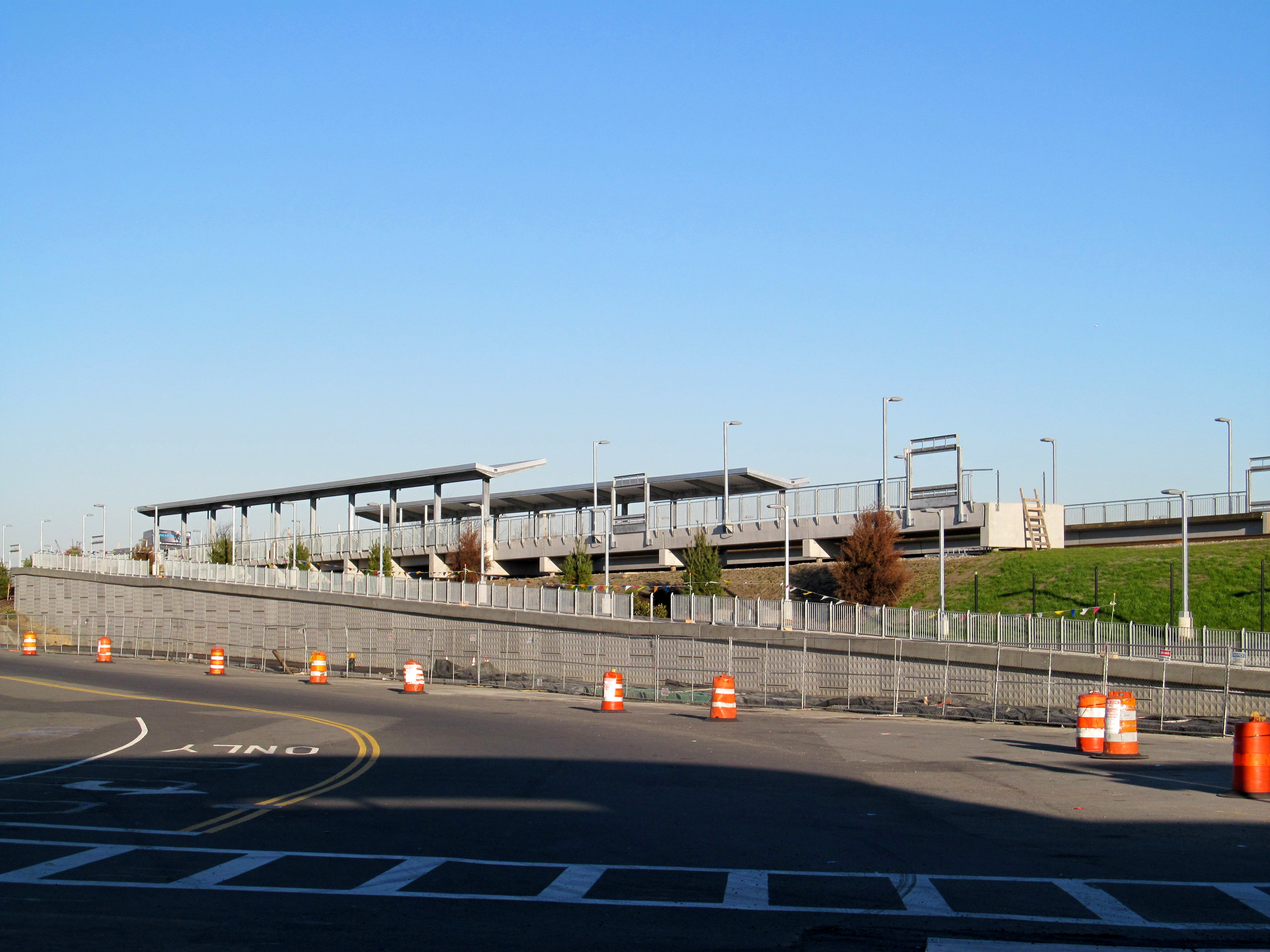 Outbound side of the MBTA's under-construction Newmarket station